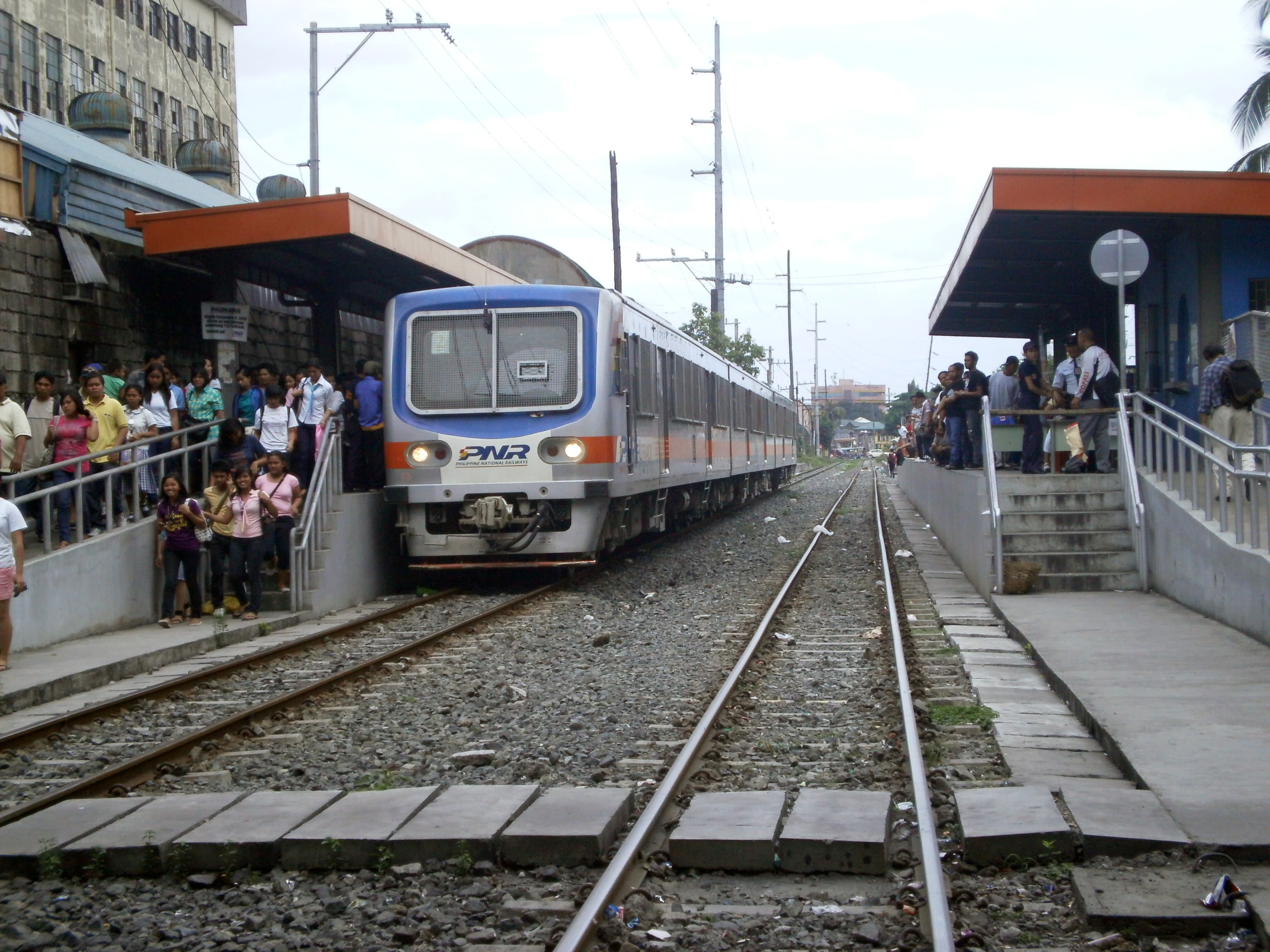 Platform area of PNR Blumentritt station